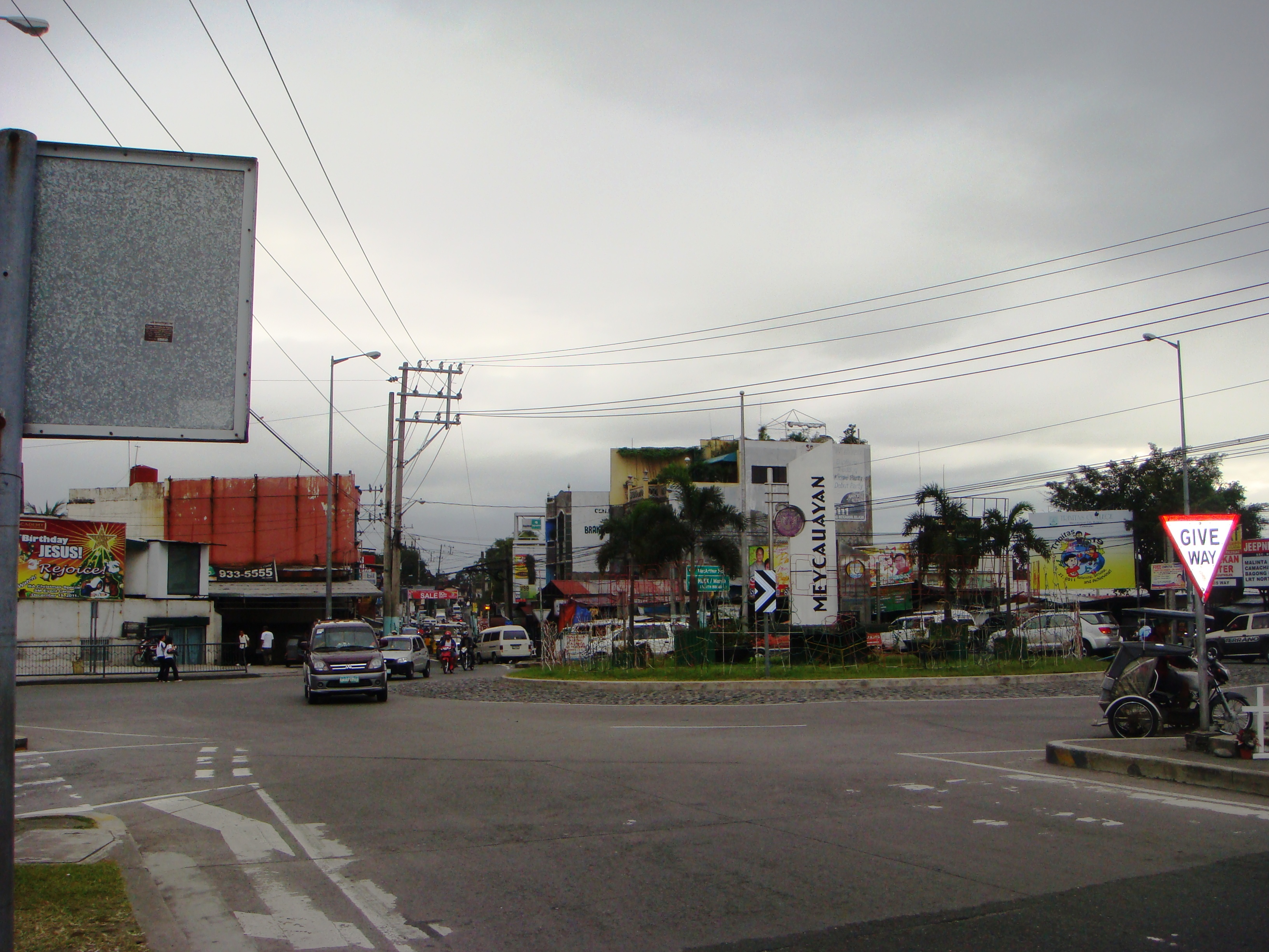 Welcome marker at NLEX (Malhacan)